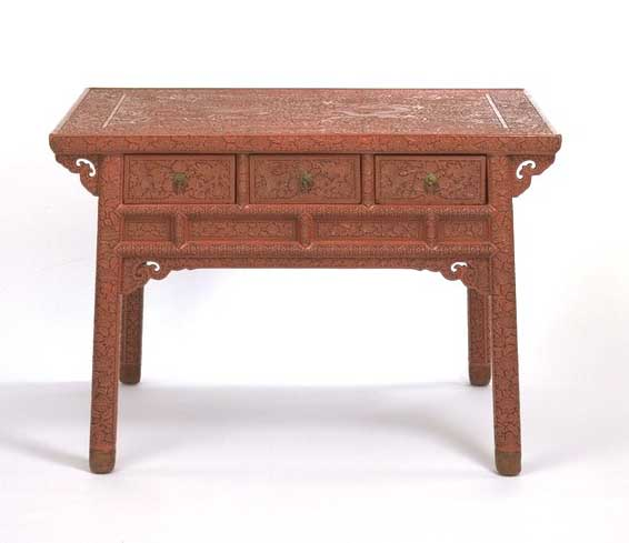 Chinese lacquerware table, 1425-1436 V&A Museum no. FE.6:1 to 4-1973 Techniques - Carved lacquer on wood Place - Beijing Dimensions - Height 79.2 cm Length 119.5 cm (of table top)